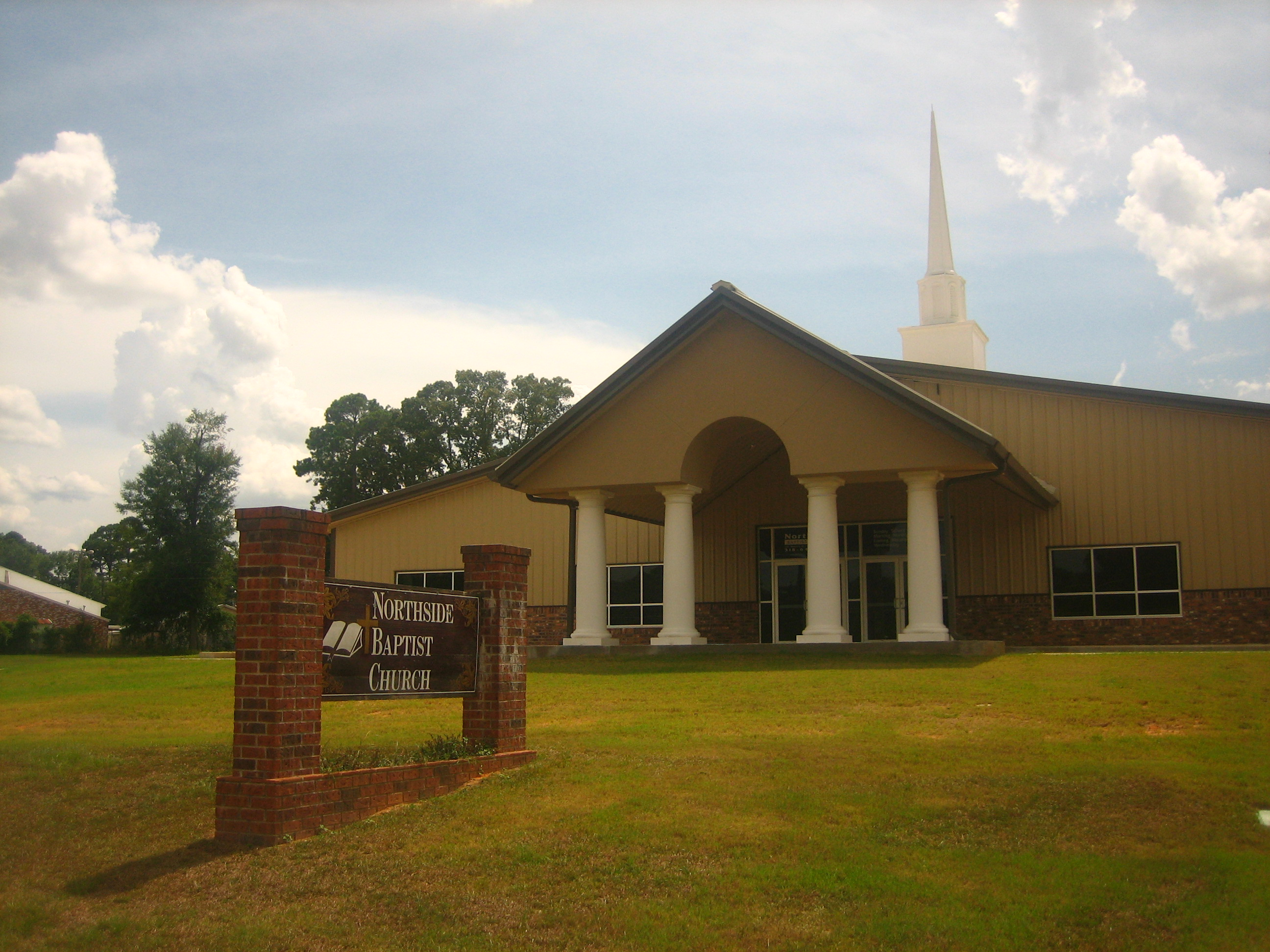 I took photo on Aug. 10, 2008.Billy Hathorn (talk) 17:57, 15 August 2008 (UTC)